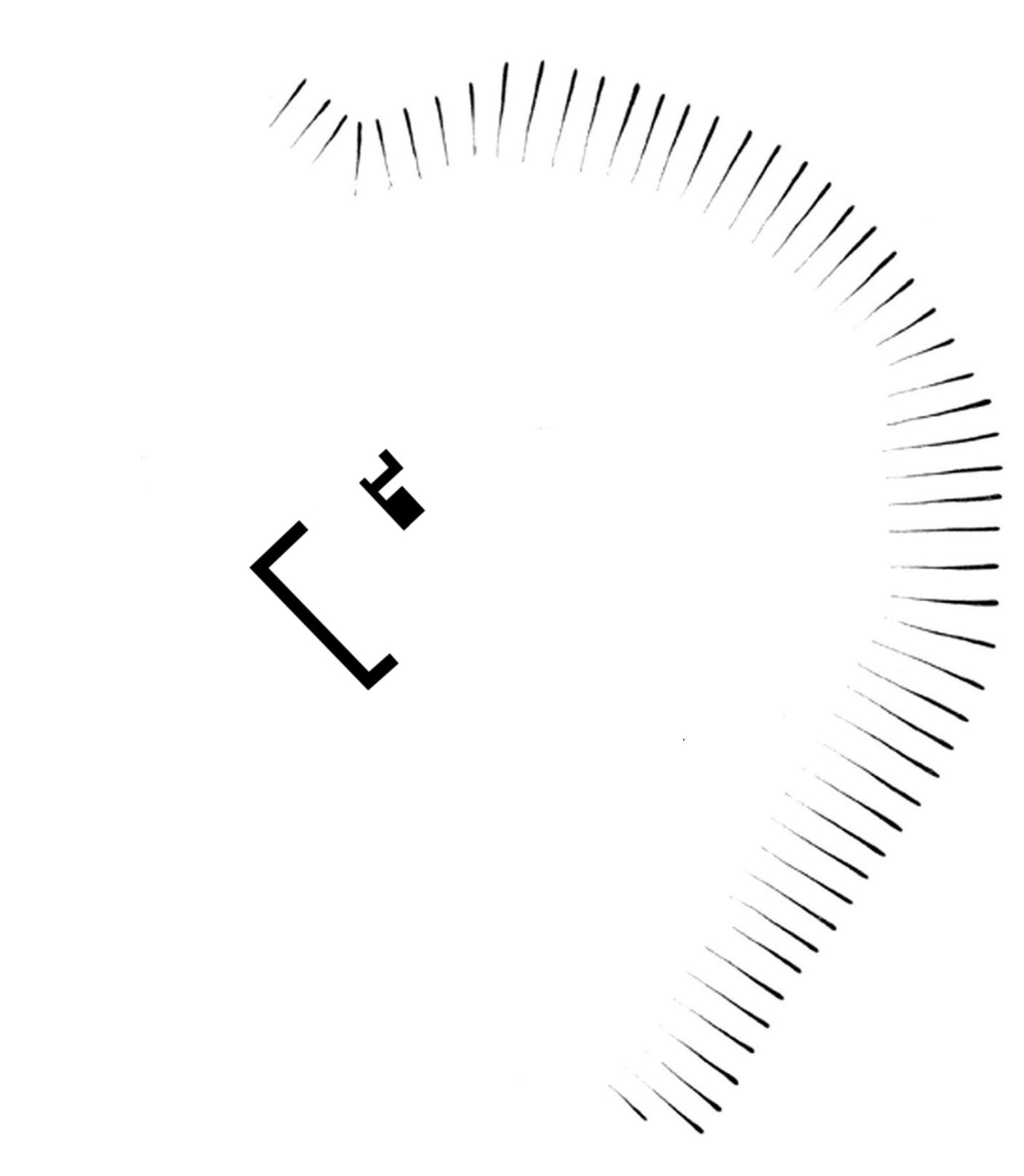 Eynsford Castle, Anglo-Saxon period; after 1988 research